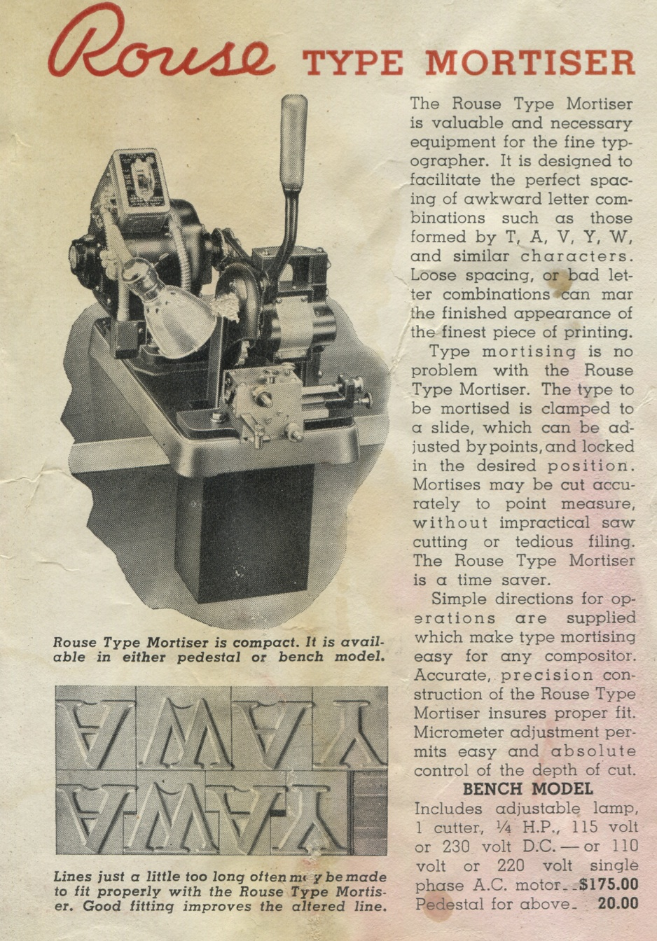 Rouse Type Mortiser, from "Time-Saving Equipment for Printers"